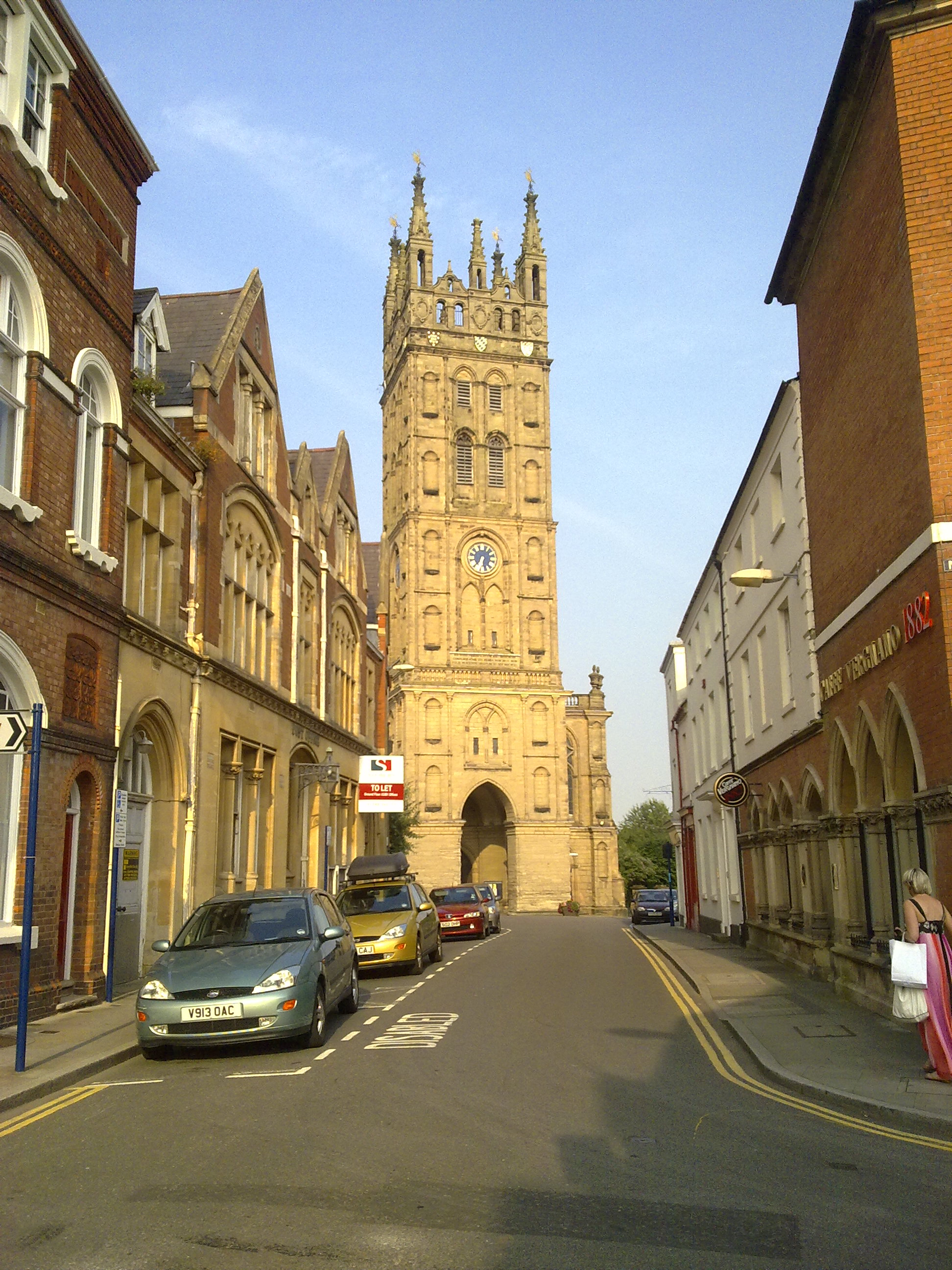 The Collegiate Church of St Mary's, at the corner of Northgate and Old Square Streets, Warwick